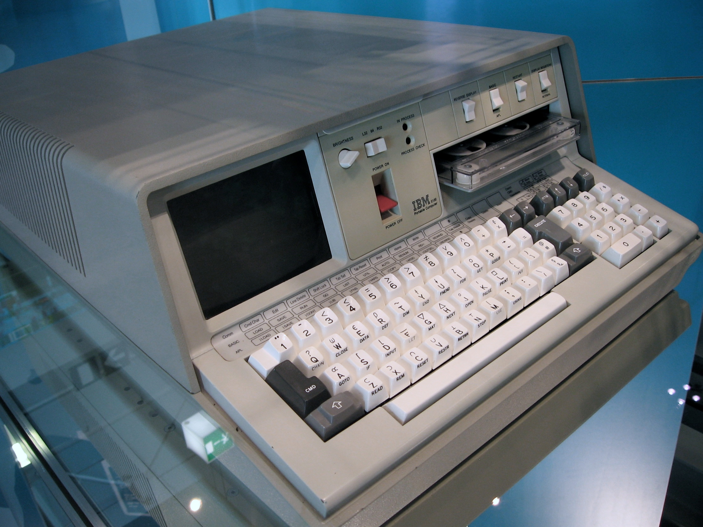 IBM 5100 microcomputer with APL keyboard.